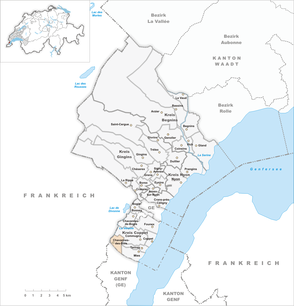 Municipality Chavannes-des-Bois